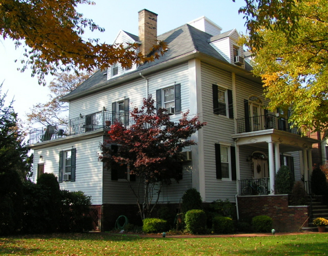 The home built in 1896 for Dr. Lorenzo Ullo, Counselor to the General Company of Italian Navigation, still stands on 83rd Street between 10th and 11th Avenues and retains much of its original quality.